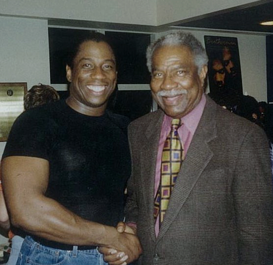 Opera star Stacey Robinson (left) performed the lead role in the play Paul Robeson -- All-American, in which the New York Times critic praised the performance as beautifully evoking the spirit of Paul Robeson; Robinson has a rich baritone voice. Year 1998 (exact date is approximate). Ossie Davis was an actor, director, writer, and civil rights activist who wrote the play about Paul Robeson. (Courtesy of photographer Mary Biggs; modifications (cropping, tone) by Tom Sulcer. Exact date is approximate.)